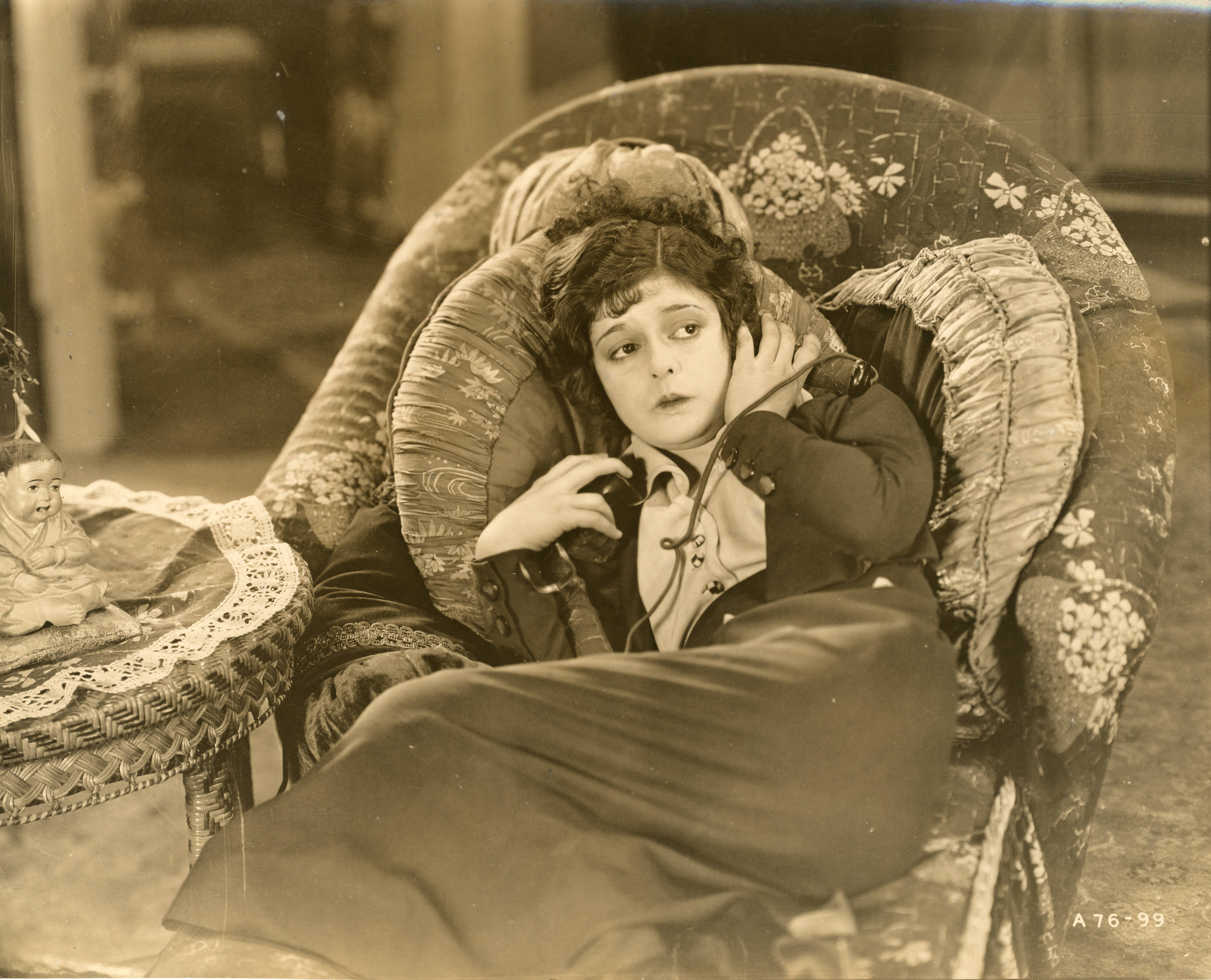 Clarine Seymour, silent film actress Subjects: actresses